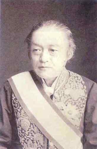 Iwakura Tomomi (岩倉 具視?, October 26, 1825 – July 20, 1883) was a Japanese statesman in the Meiji period.[1] The former 500 Yen banknote issued by the Bank of Japan carried his portrait.